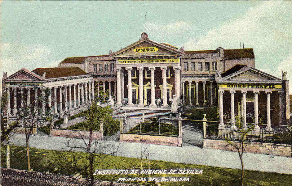 Instituto de Higiene del Doctor Murga (Institute of Hygiene of the Doctor Murga), Seville.